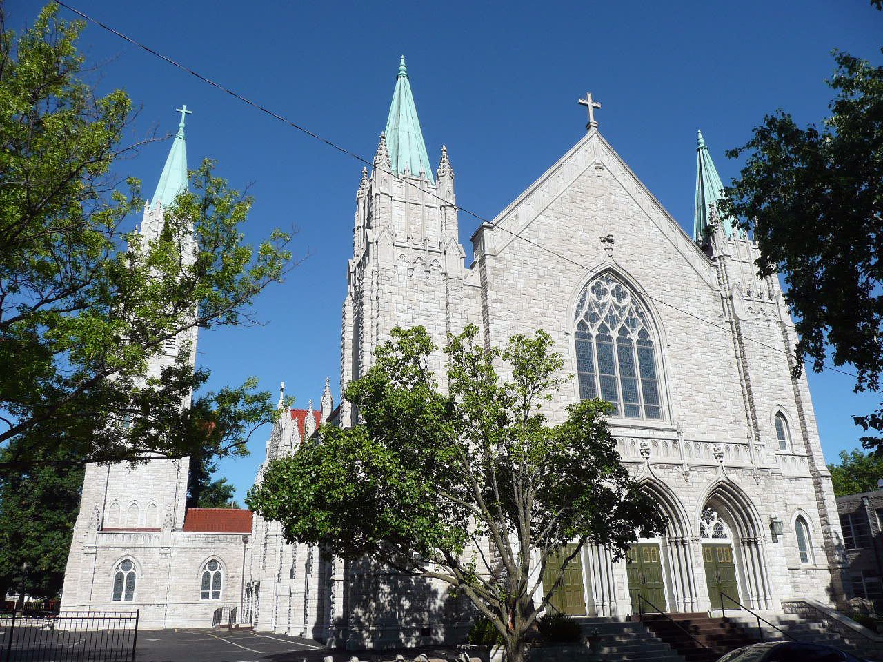 The front (east) of the cathedral.